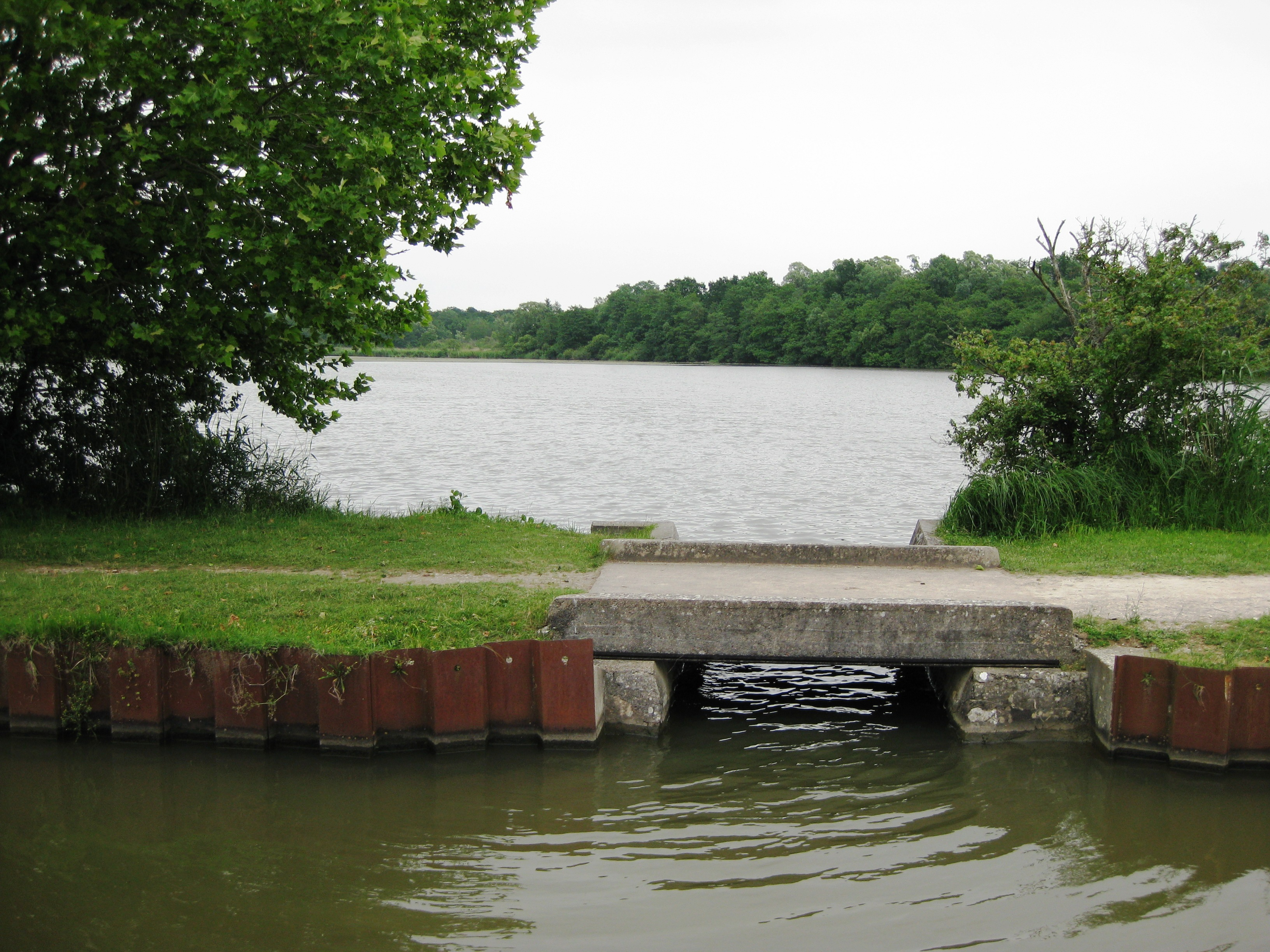 Canal de Briare shown along with étang de la Gazonne with water connection between the two, 100 m north of lock n° 12 ("écluse de la Gazonne"). Looking east.